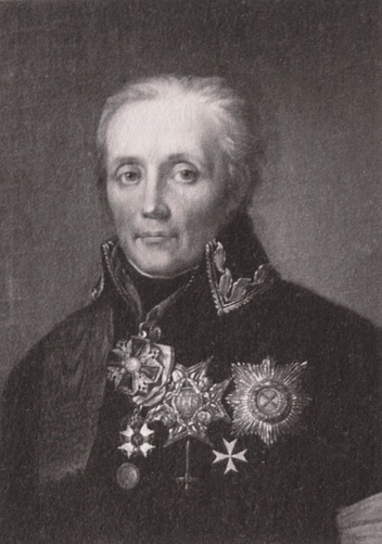 Count, Infantry General, Diplomat Gustaf Mauritz Armfelt (1757–1814), was a Swedish diplomat and Governor-General of Finland.